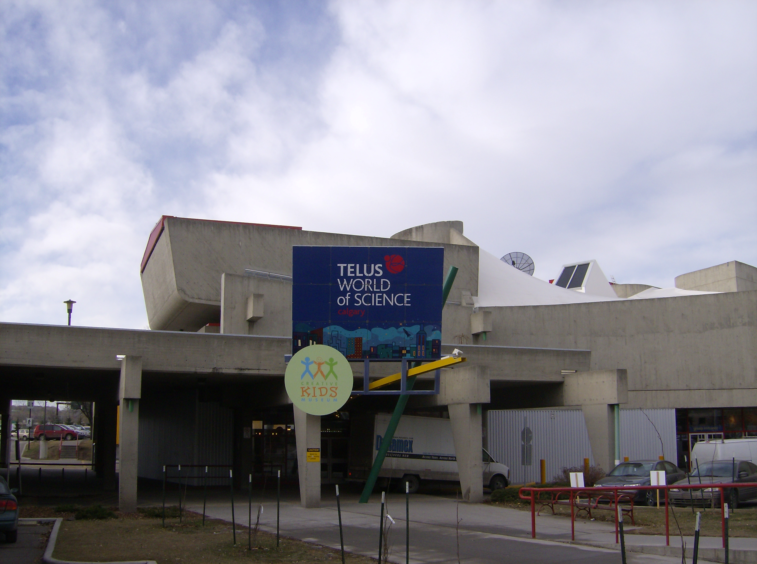 TELUS World of Science, Calgary located at 701 - 11 Street S.W., Calgary, Alberta, Canada.